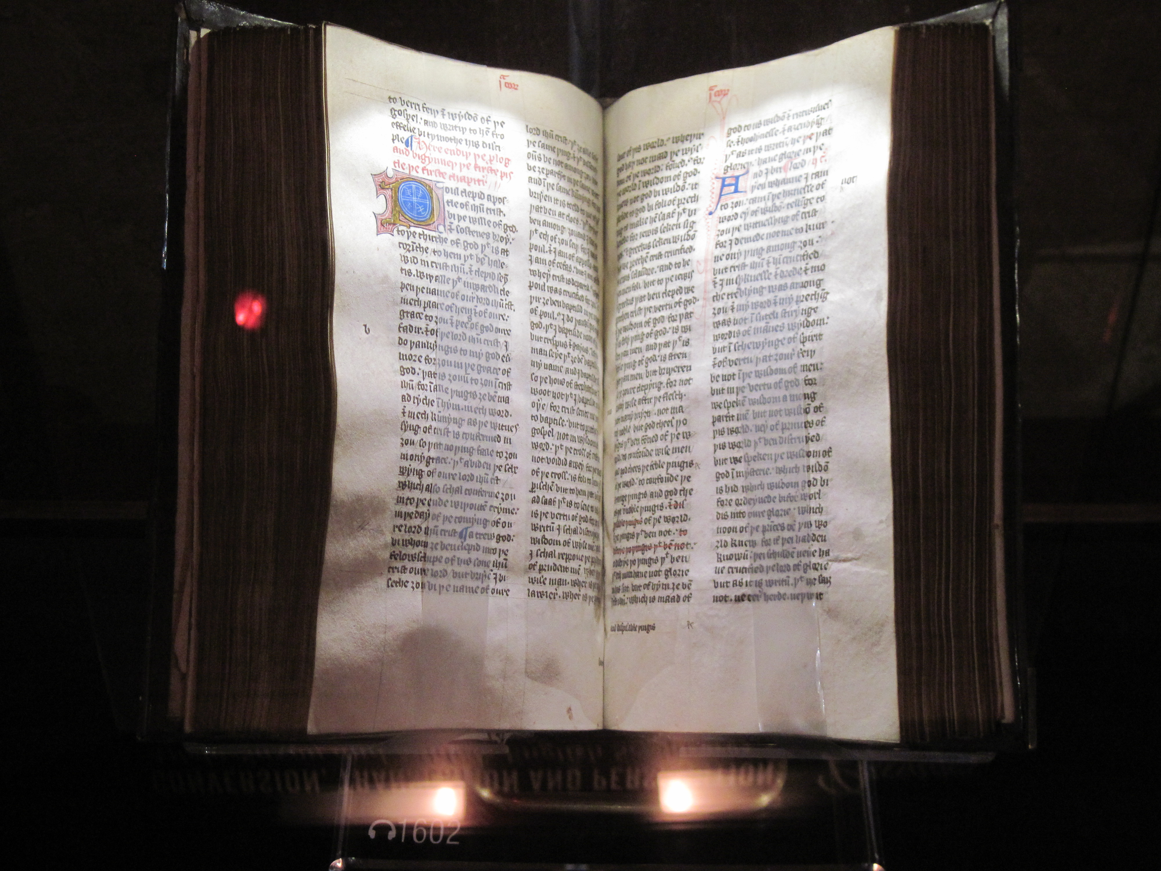 A John Wycliffe Bible in the Green Collection, Oklahoma City, OK. Future artifact in Museum of the Bible.